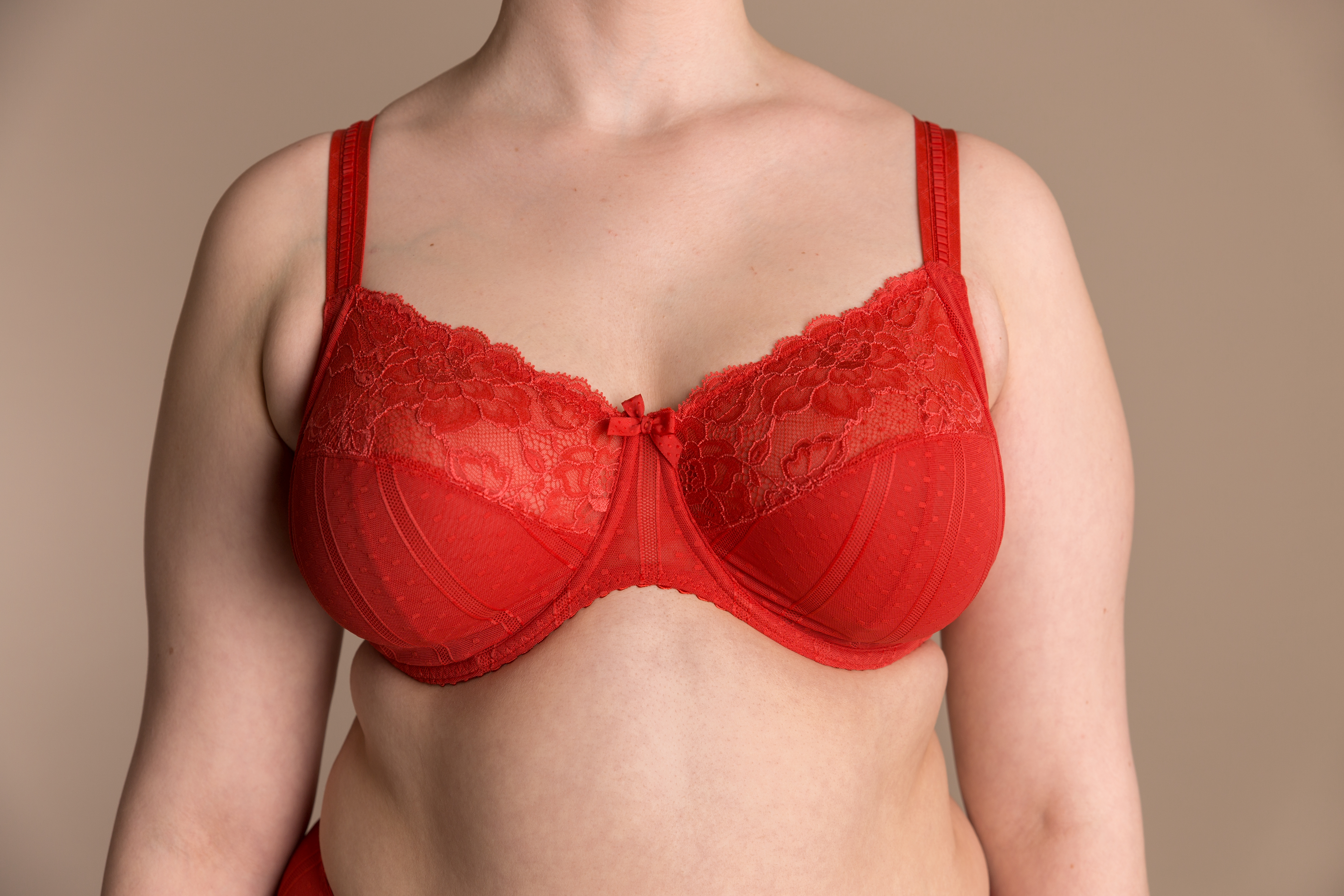 Juno, 19 year old, non-binary person